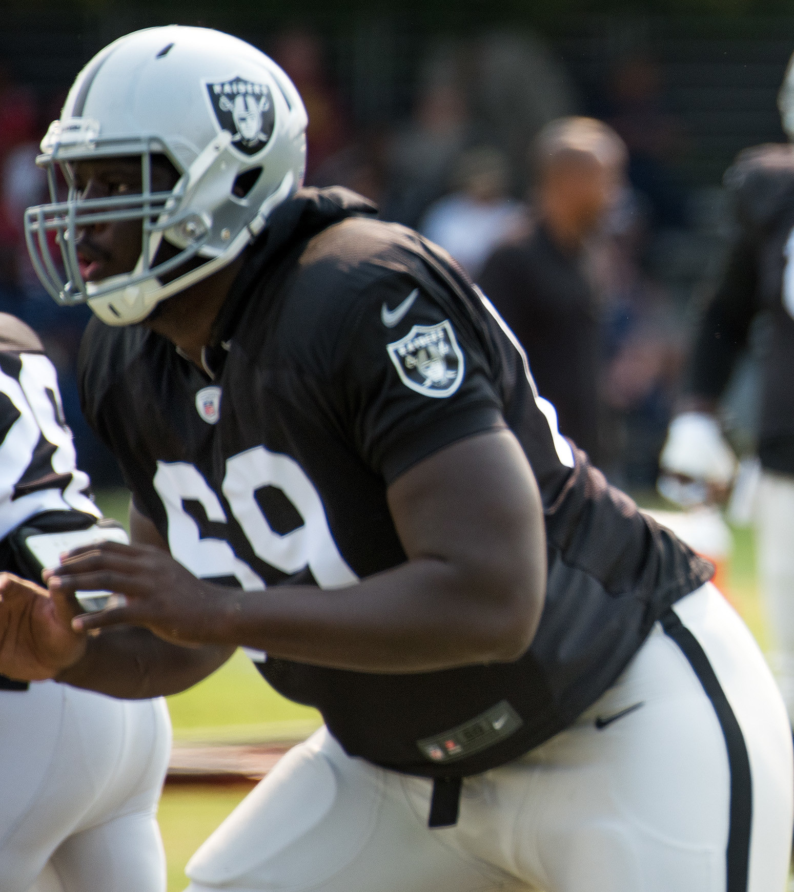 Oakland Raiders Quarterback Derek Carr throws a pass during practice at their training facility in Napa Valley, Calif., August 7, 2018. The Raiders invited Travis Air Force Base Airmen to attend camp and were treated to a scrimmage between the Raiders and Detroit Lions and a meet and greet autograph session with players and coaches from both teams.